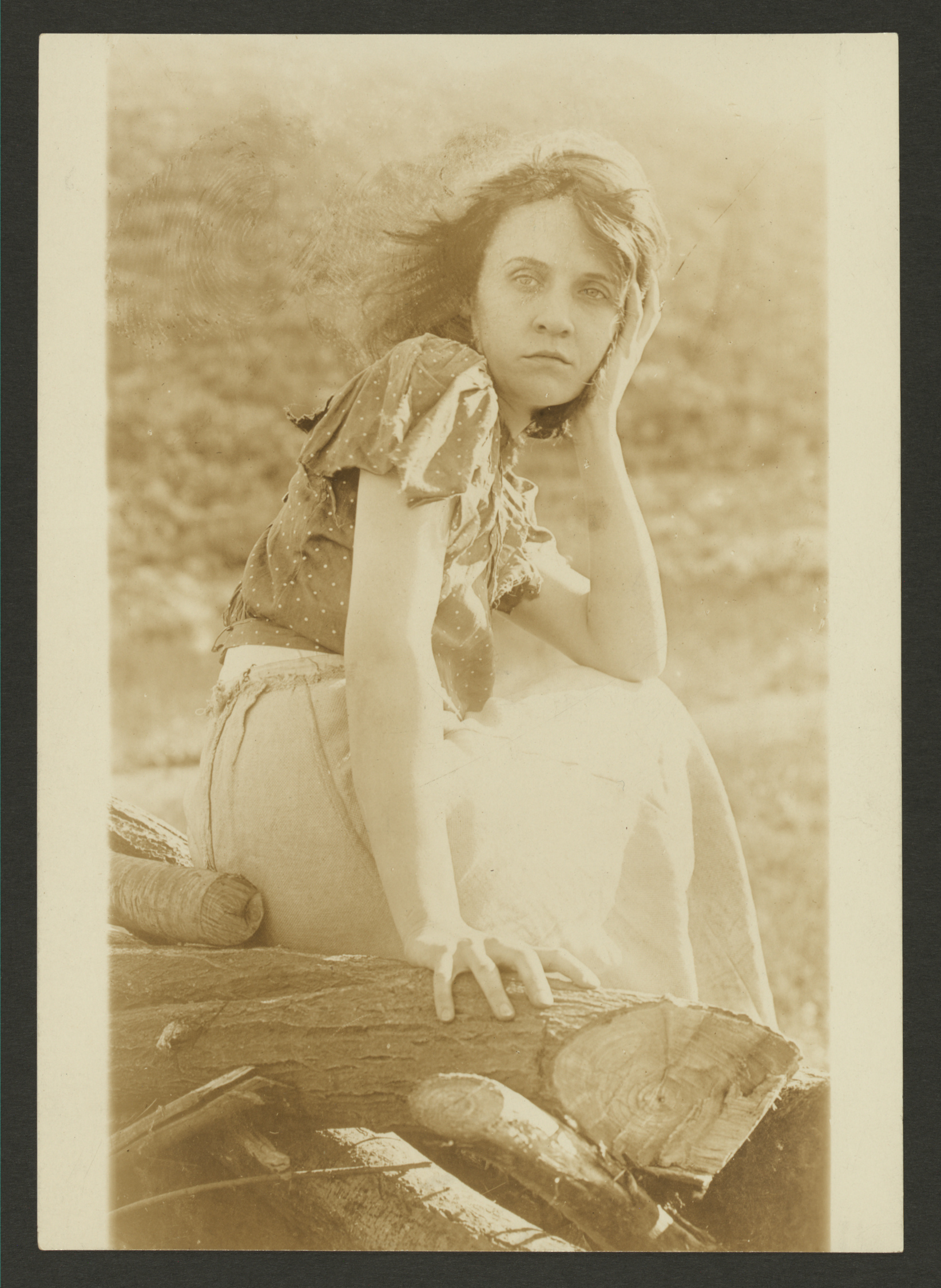 Digital ID: TH-64631 Source: Billy Rose Theatre Collection photograph file / Productions / Where the Forest Ends (cinema 1915) ( Repository: The New York Public Library. The New York Public Library for the Performing Arts. Billy Rose Theatre Division. See more information about and others at Persistent URL: Rights Info: No known copyright restrictions; may be subject to third party rights (for more information